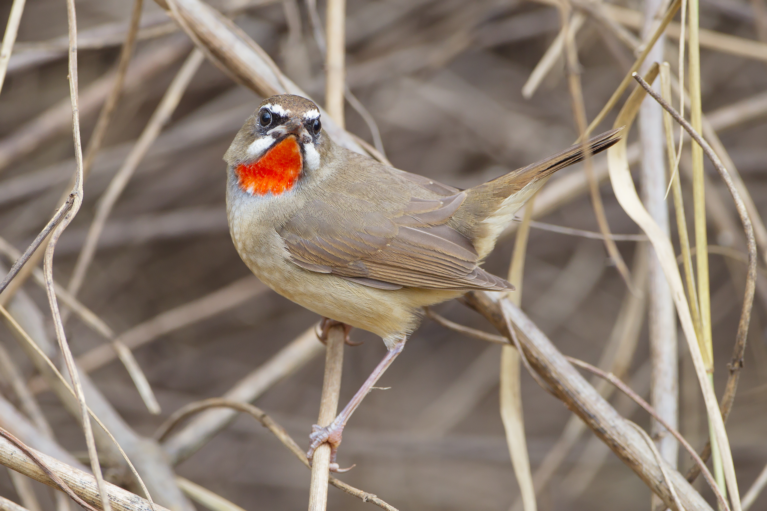 Siberian Rubythroat (Luscinia calliope) male, Pak Chong District, Nakhon Ratchasima, Thailand